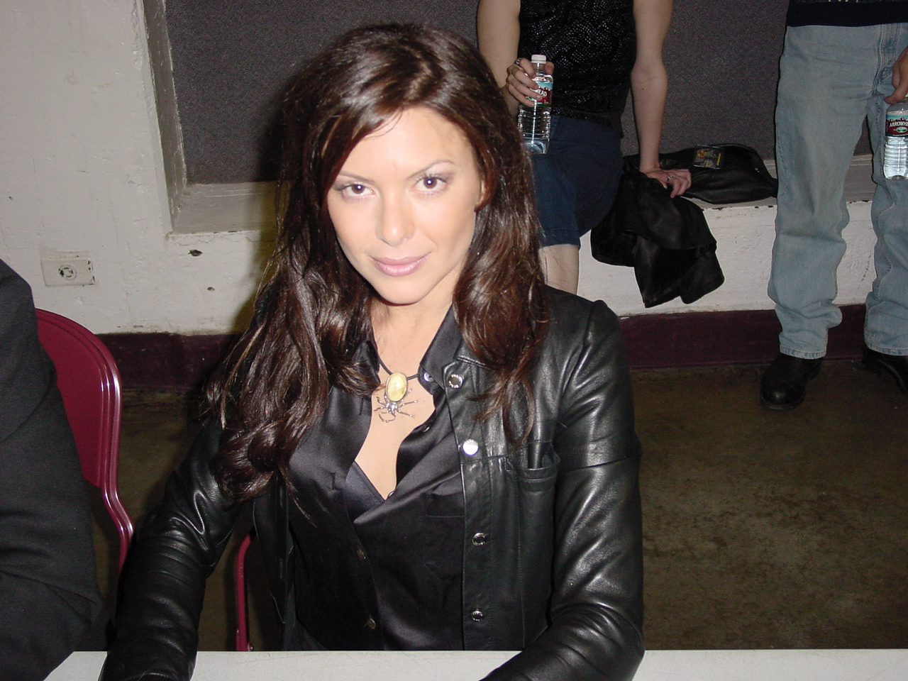 Kari Wührer at a fan convention